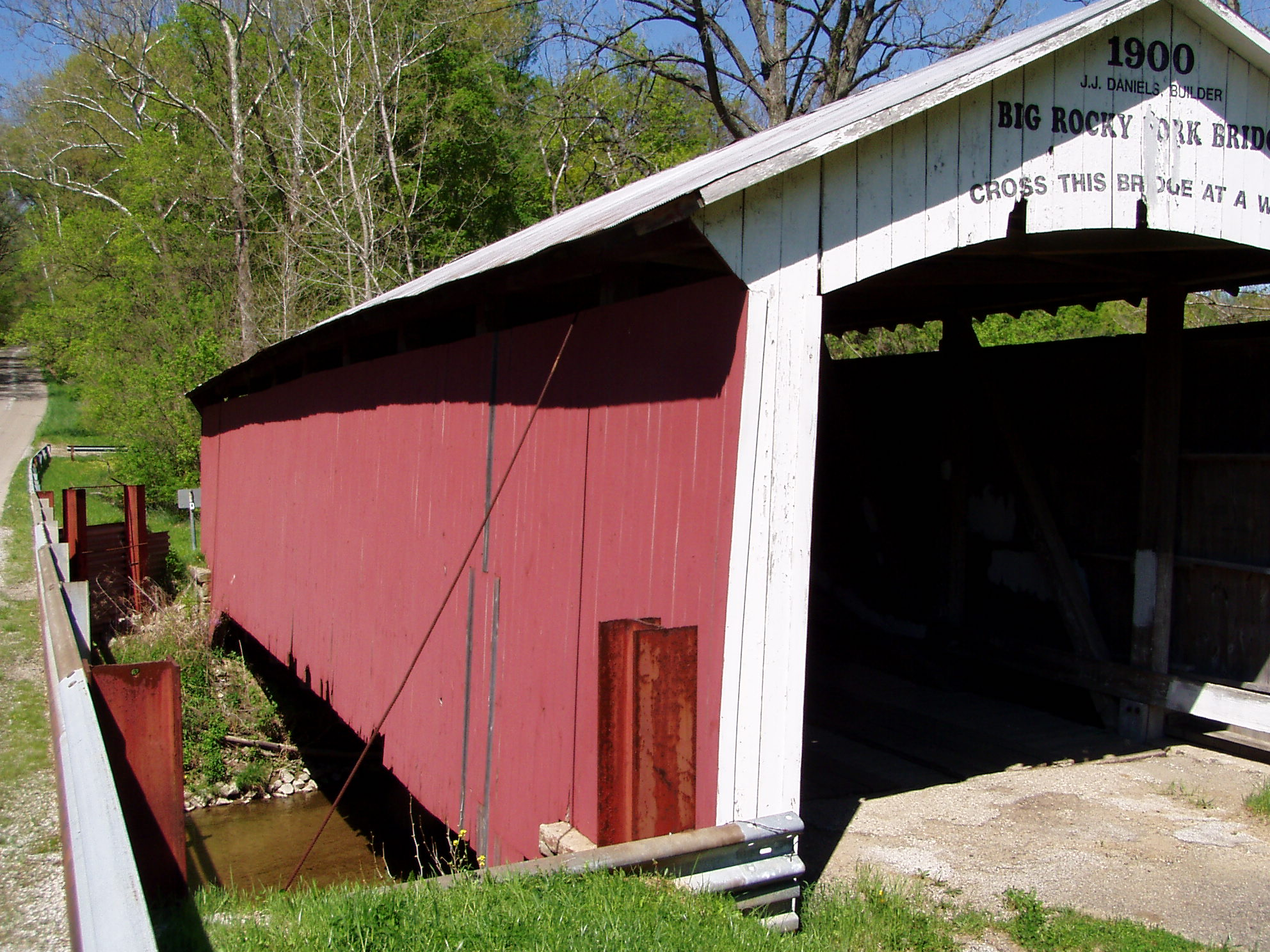 Big Rocky Ford Covered Bridge